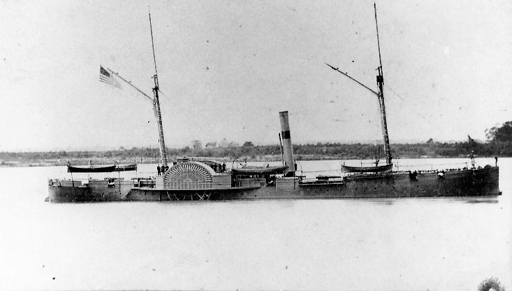 USS Conemaugh in the American Civil War. Photo # NH 49989